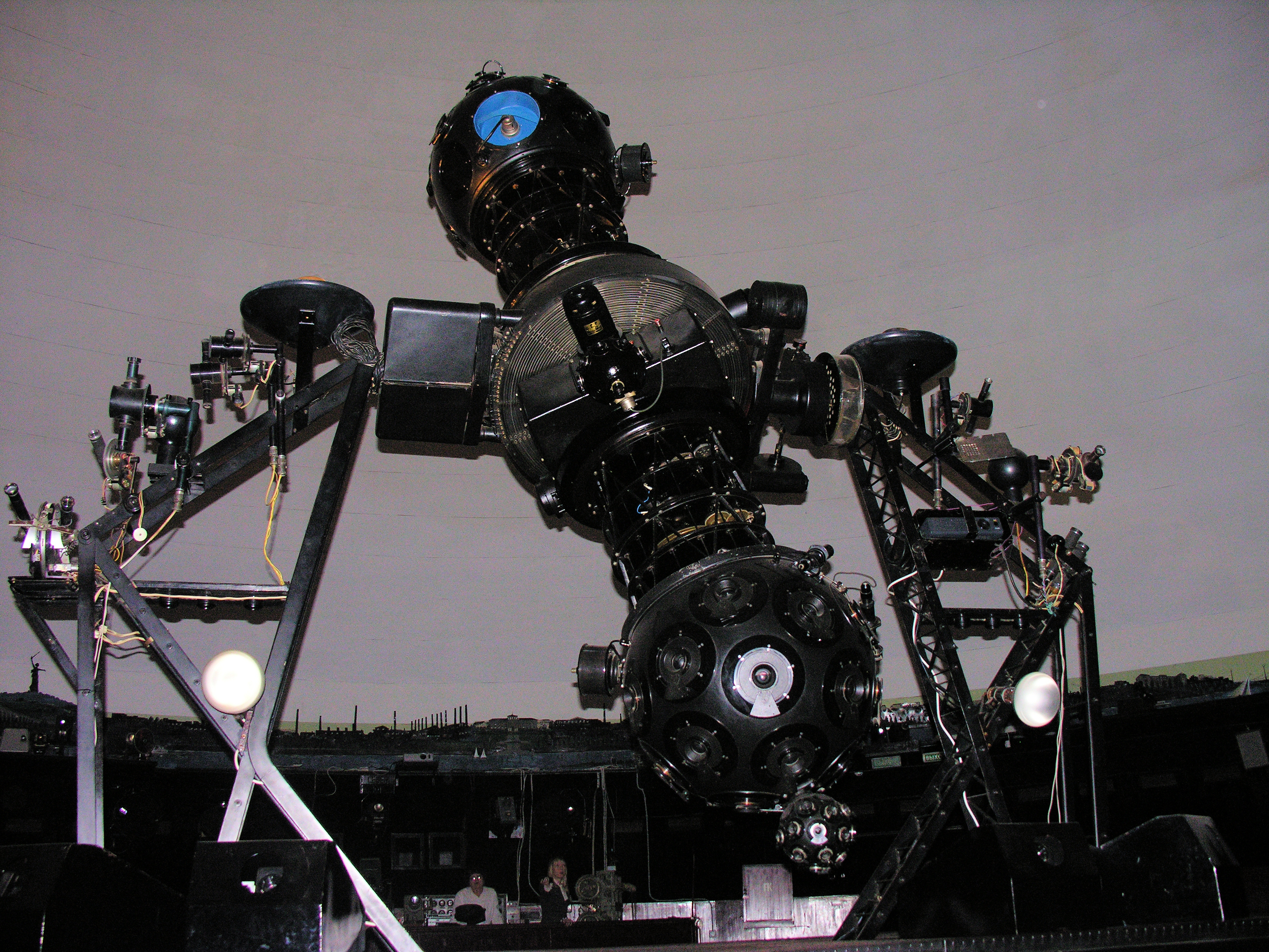 Planetarium Projector in Volgograd Planetarium. Made in Germany.